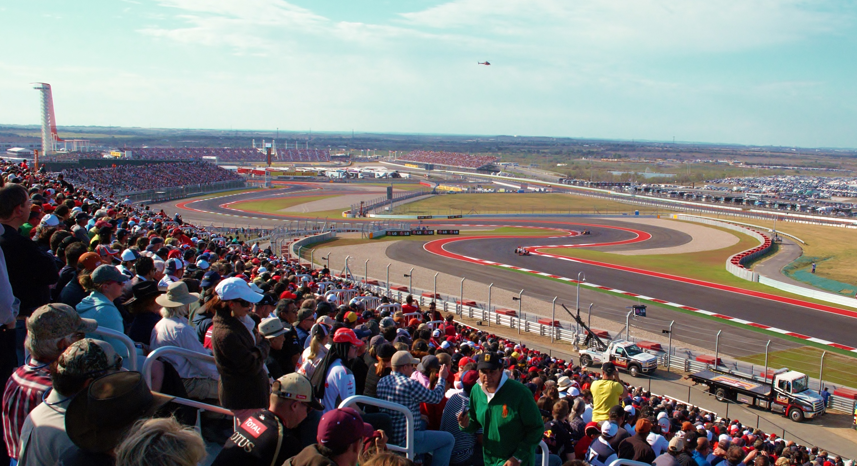 Large crowds cheered the return of Formula 1 to the USA at the 2012 US Grand Prix in Austin, Texas.